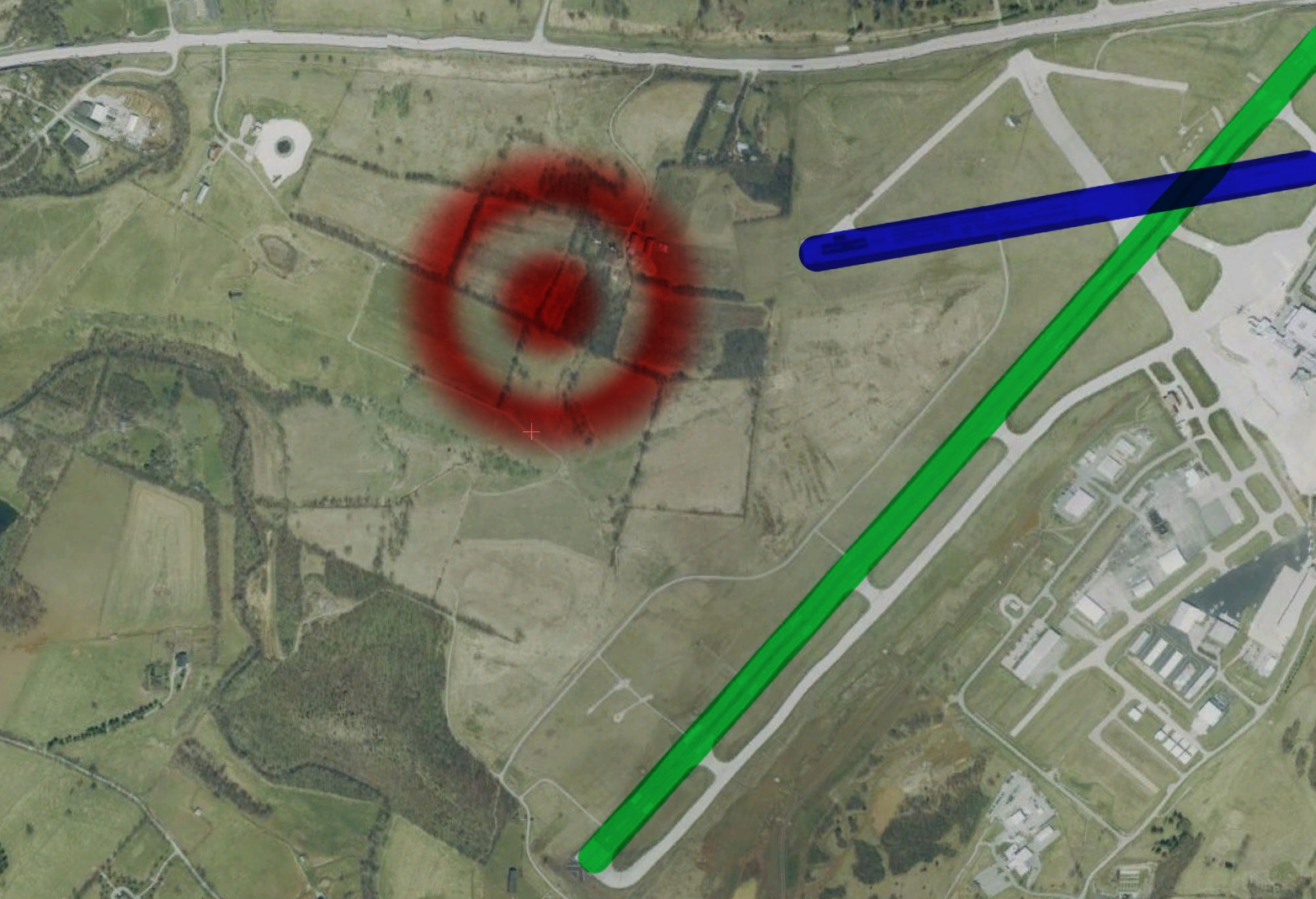 USGS urban ortho of Blue Grass Airport, Kentucky, USA. Overlayed with runway information and approx crash site. Approx crash site Runway 04/22 Runway 08/26